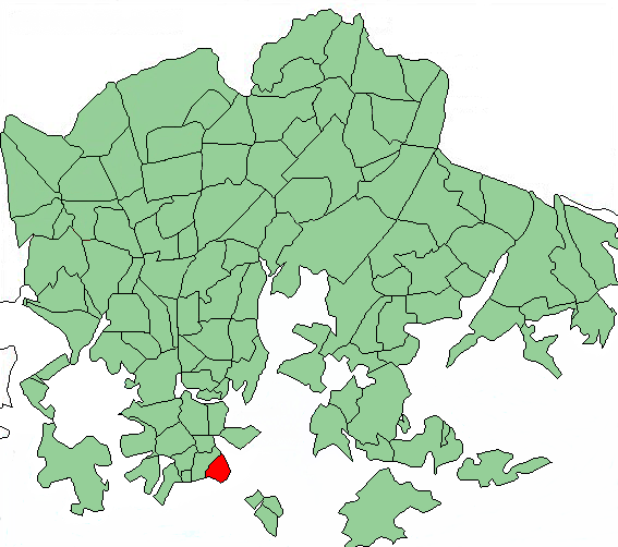 Map of Helsinki highlighting Kaivopuisto